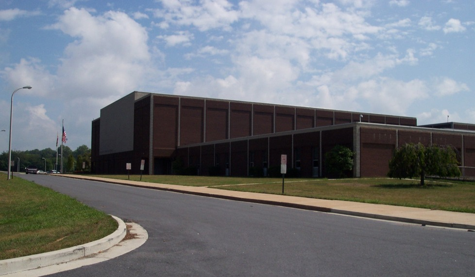 Westminster Senior High School